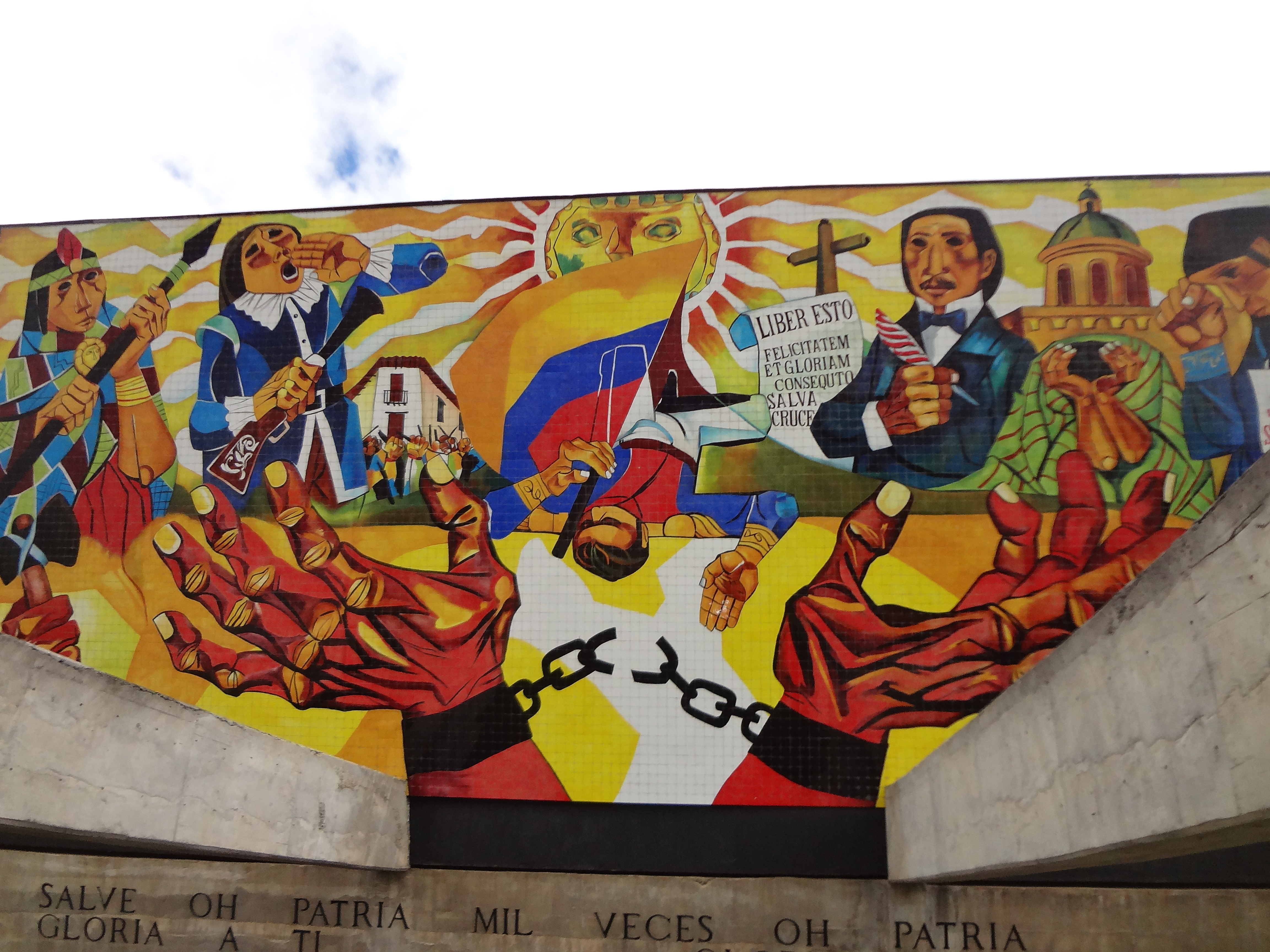 Militar la Cima de la Libertad, Quito Historic Center of Quito, Ecuador UNESCO World Cultural Heritage Site Centro Histórico de Quito Photography by David Adam Kess